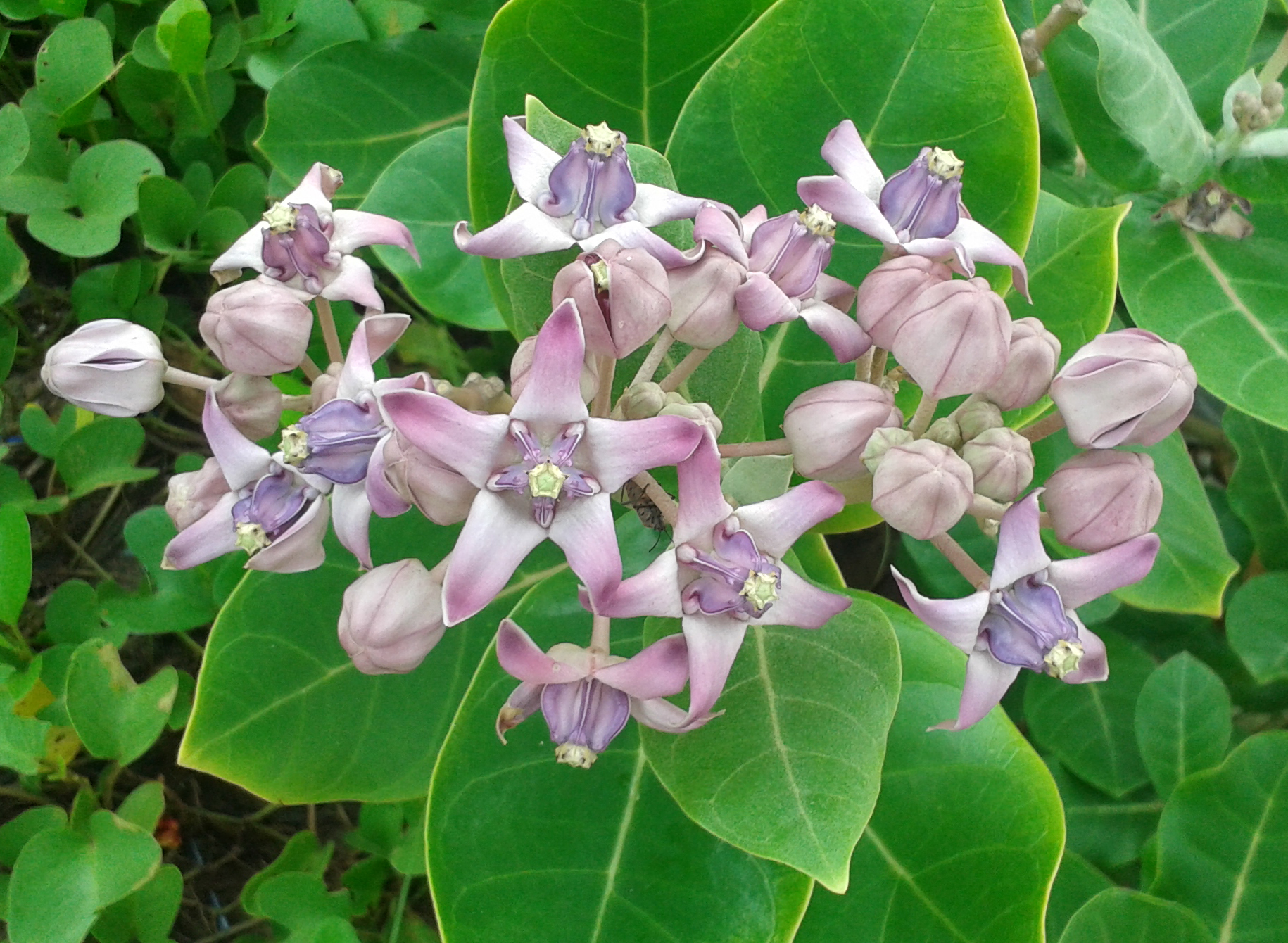 (Calotropis gigantea) crown flowers bunch at Tenneti beach park, Visakhapatnam